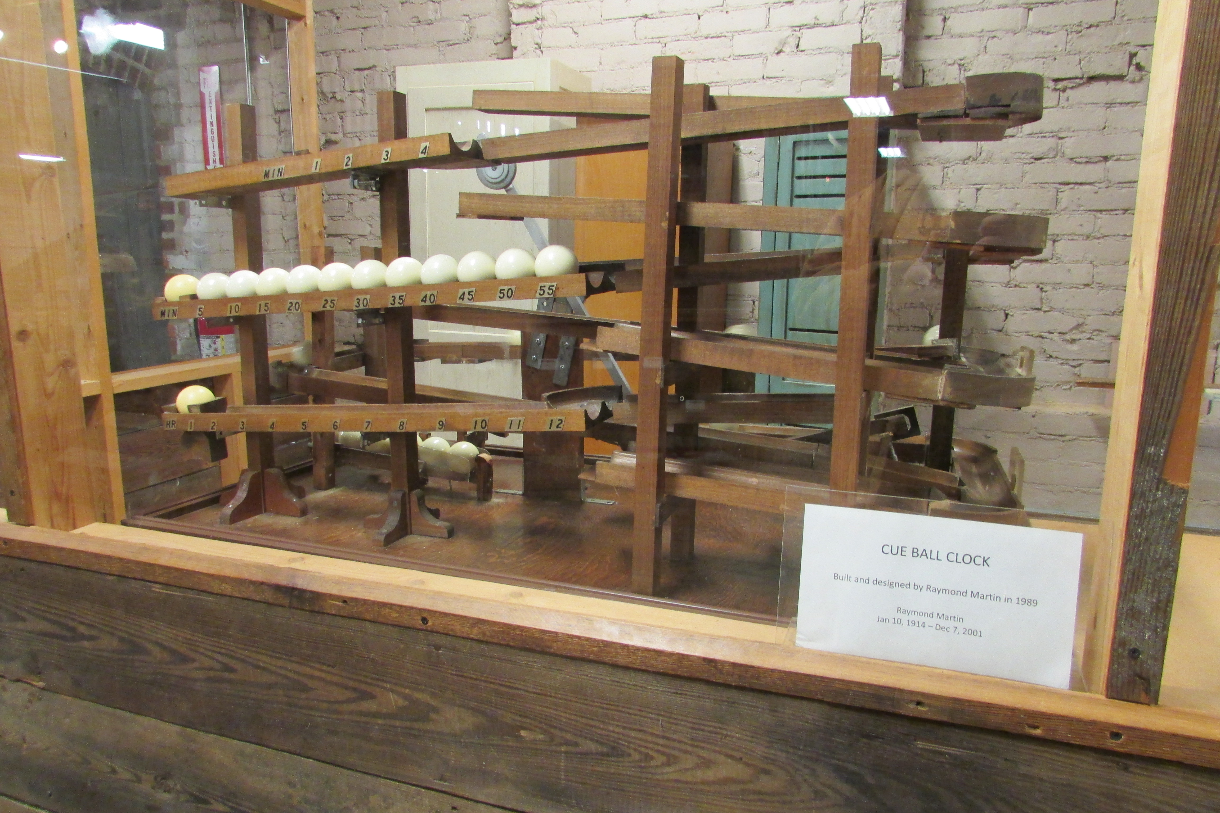 Cue Ball Clock in the Coppes Planing Mill Building, Coppes Common, 401 E. Market St, Nappanee, Indiana.